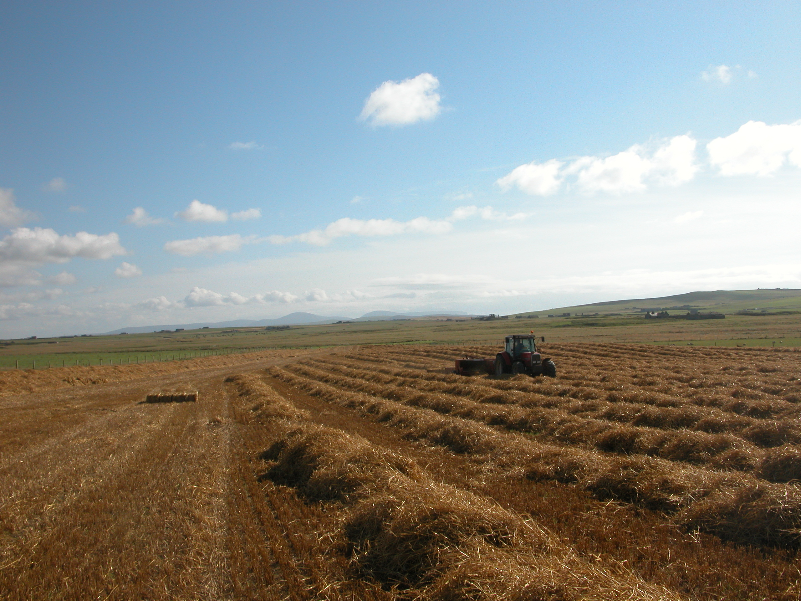 Baling straw with a Massey Ferguson 6170 tractor somewhere on the Orkney Islands, Scotland.